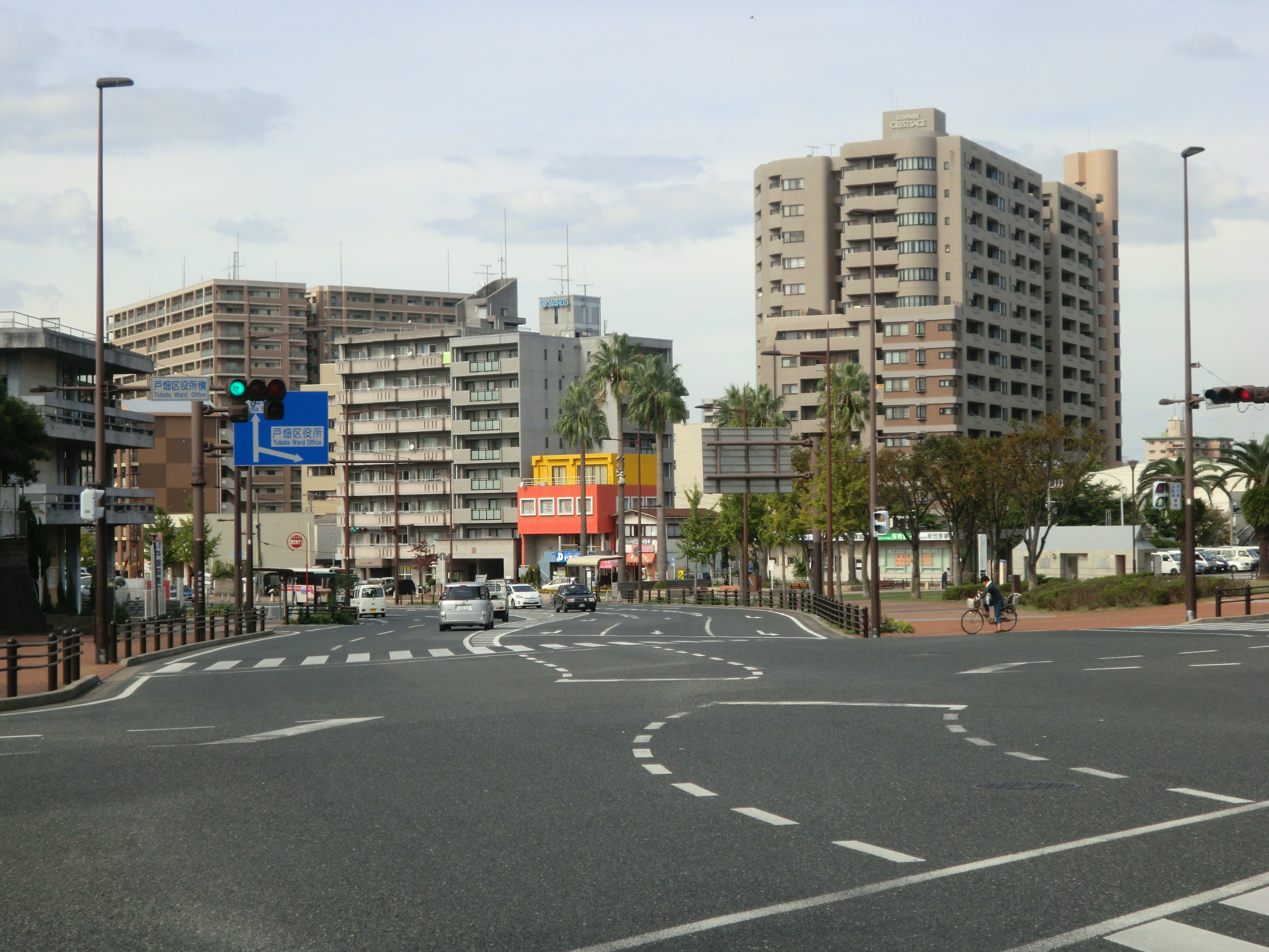 Townscape of Aso area at Kitakyushu, Fukuoka, Japan.